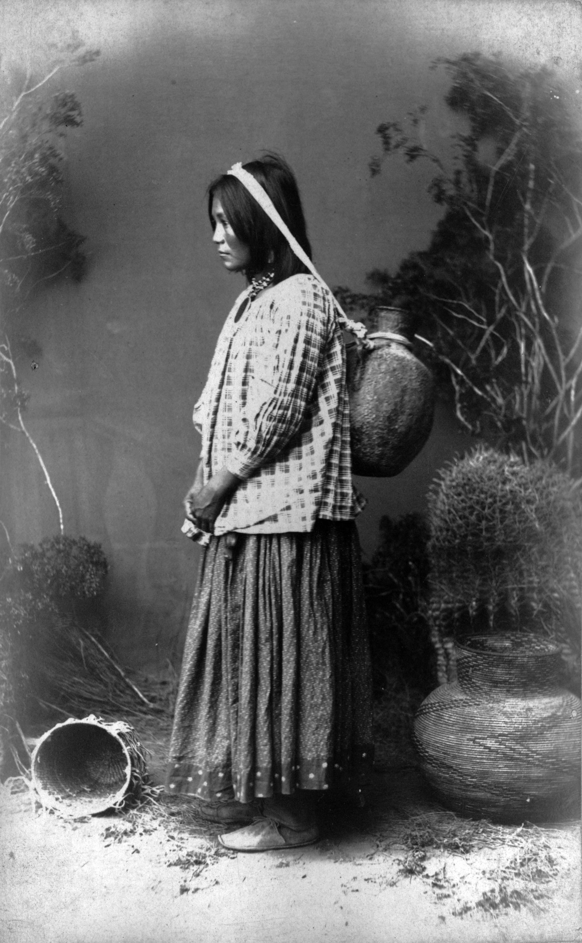 Standing studio portrait vignette of a Native American San Carlos Apache woman posed in profile carrying a pitch covered basket jar with a head strap and wearing patterned blouse and skirt; props include baskets, cactus and brush.